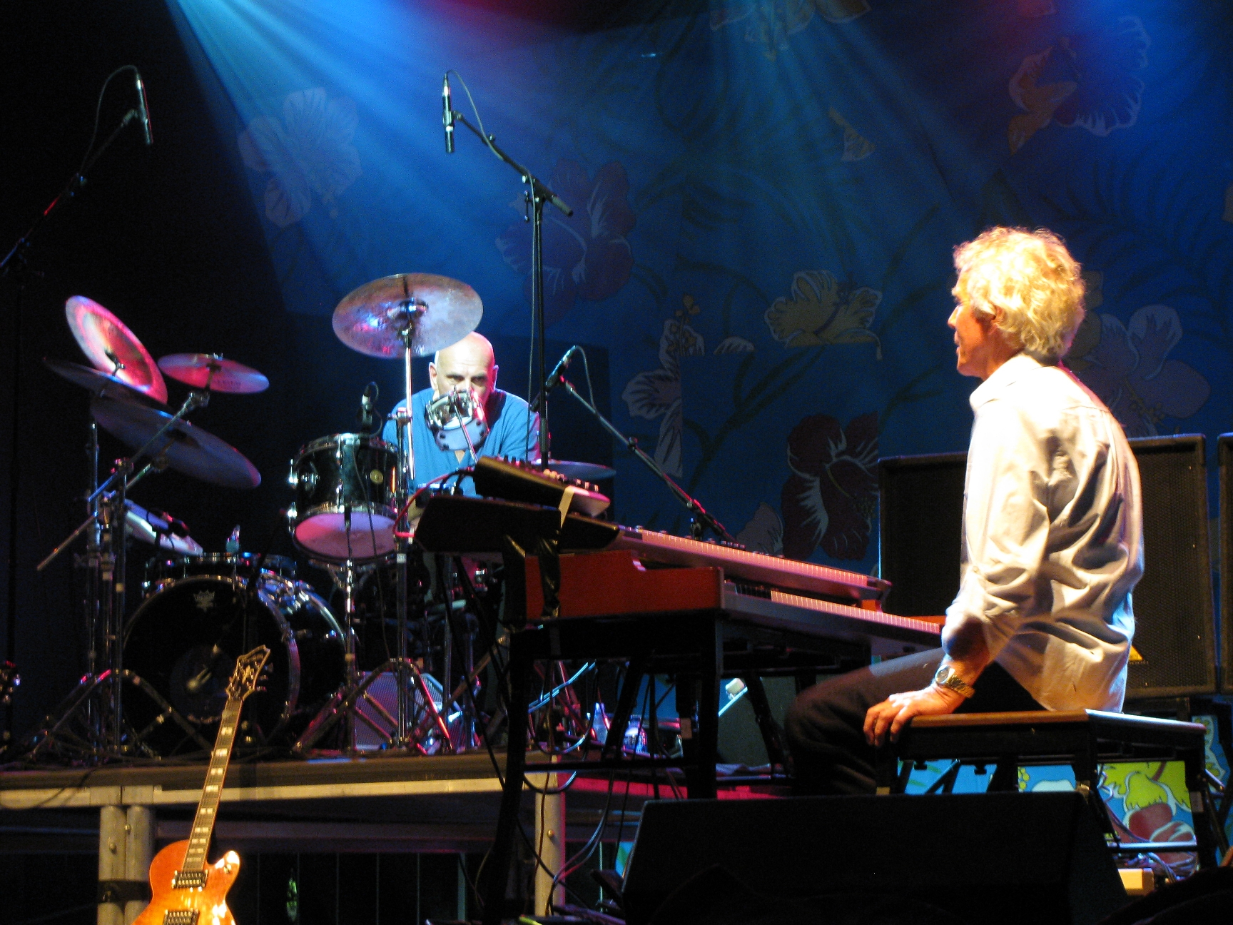 Van der Graaf Generator plays live 2009. Drummer Guy Evans to the left and keyboardist Hugh Banton to the right.